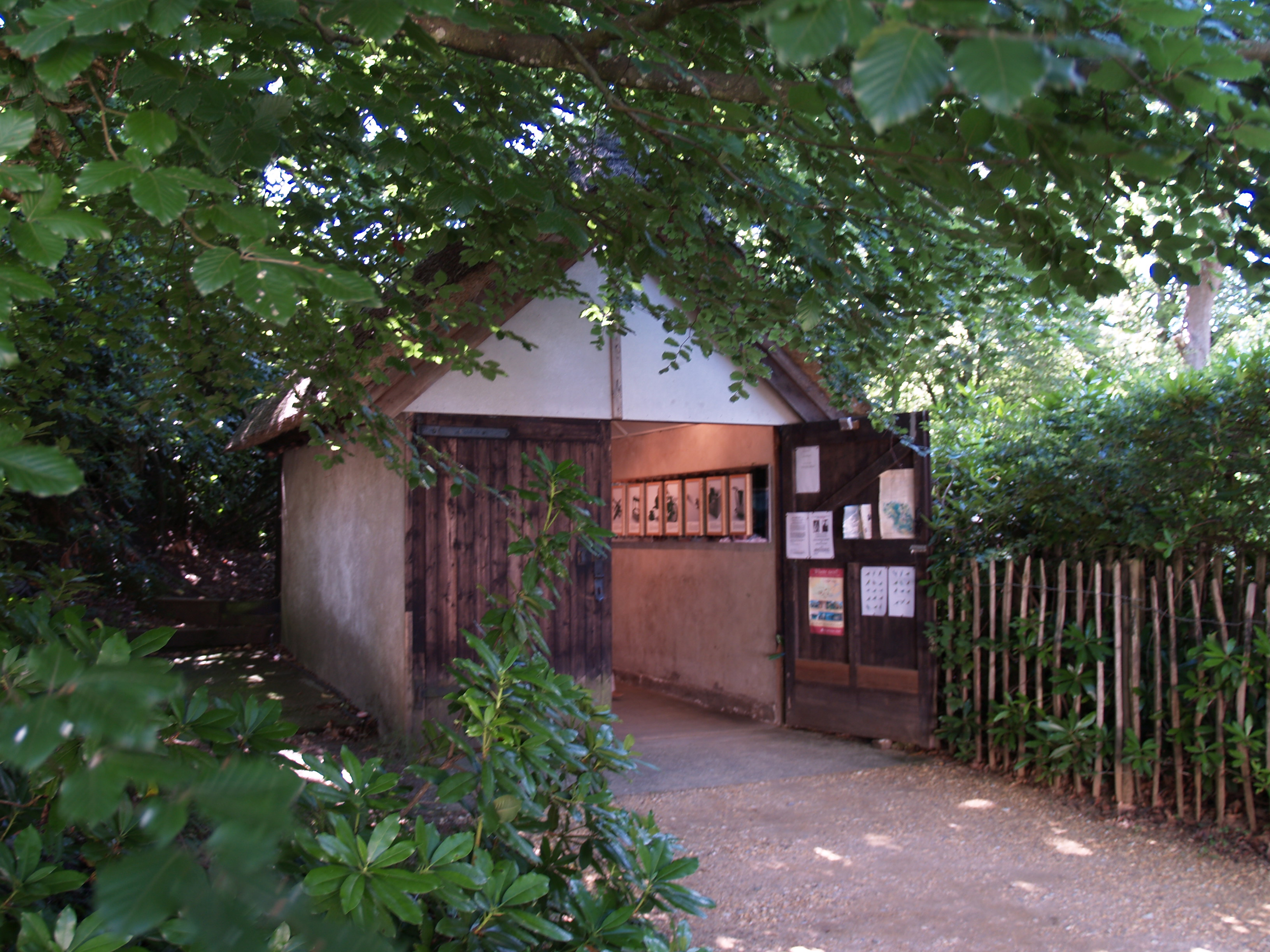 Own Work. 2007 Clouds Hill Dorset